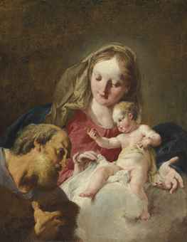 The Holy Family